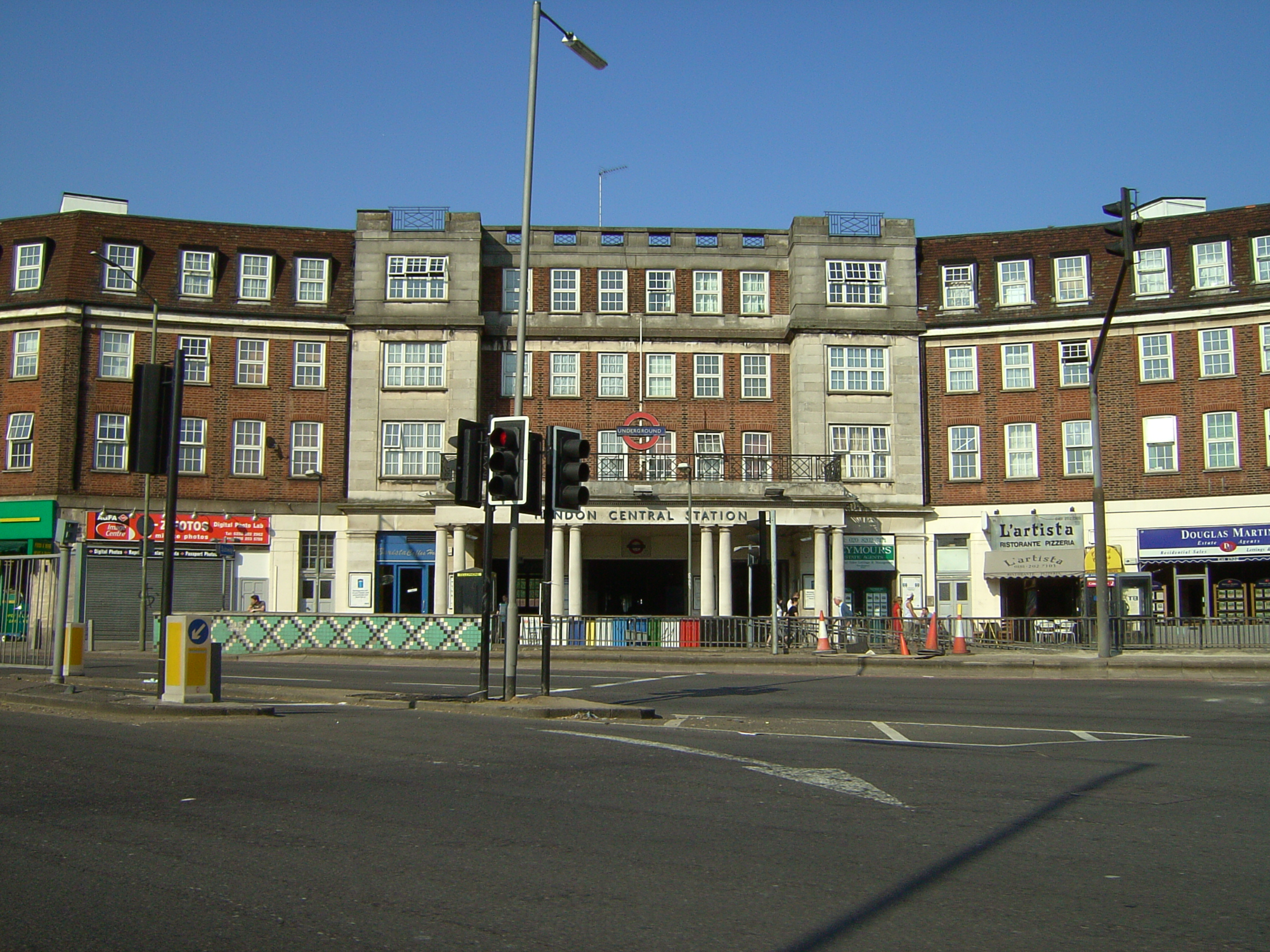 Hendon Central tube station.